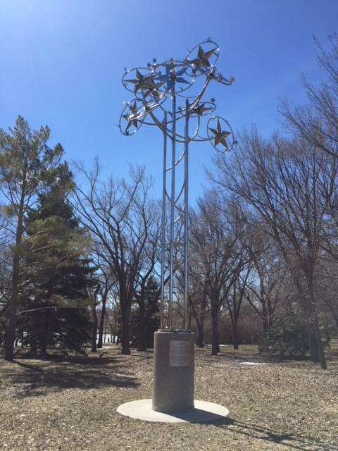 Honouring Tree in Wascana Park, Regina, Saskatchewan